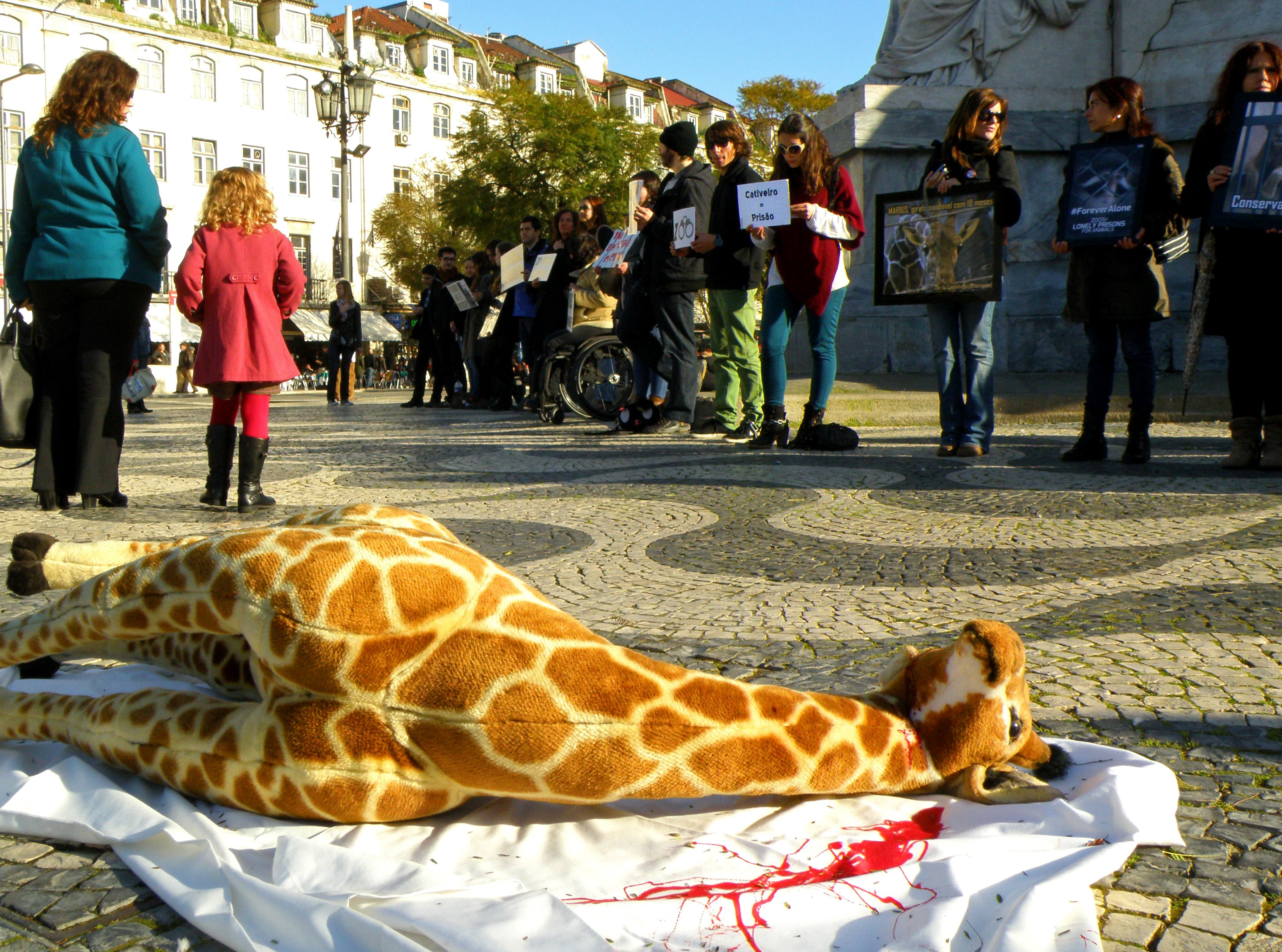 Sit-in protest against zoos and conservation of animal species under conditions of confinement and according to rules that involve practices such as euthanasia for reasons of conservation of the species. In the foreground a puppet giraffe, to represent the case of Marius, a young giraffe killed and dissected in public in 2014 for reasons of exceeding animals and conservation of the species in the zoo of Copenhagen.